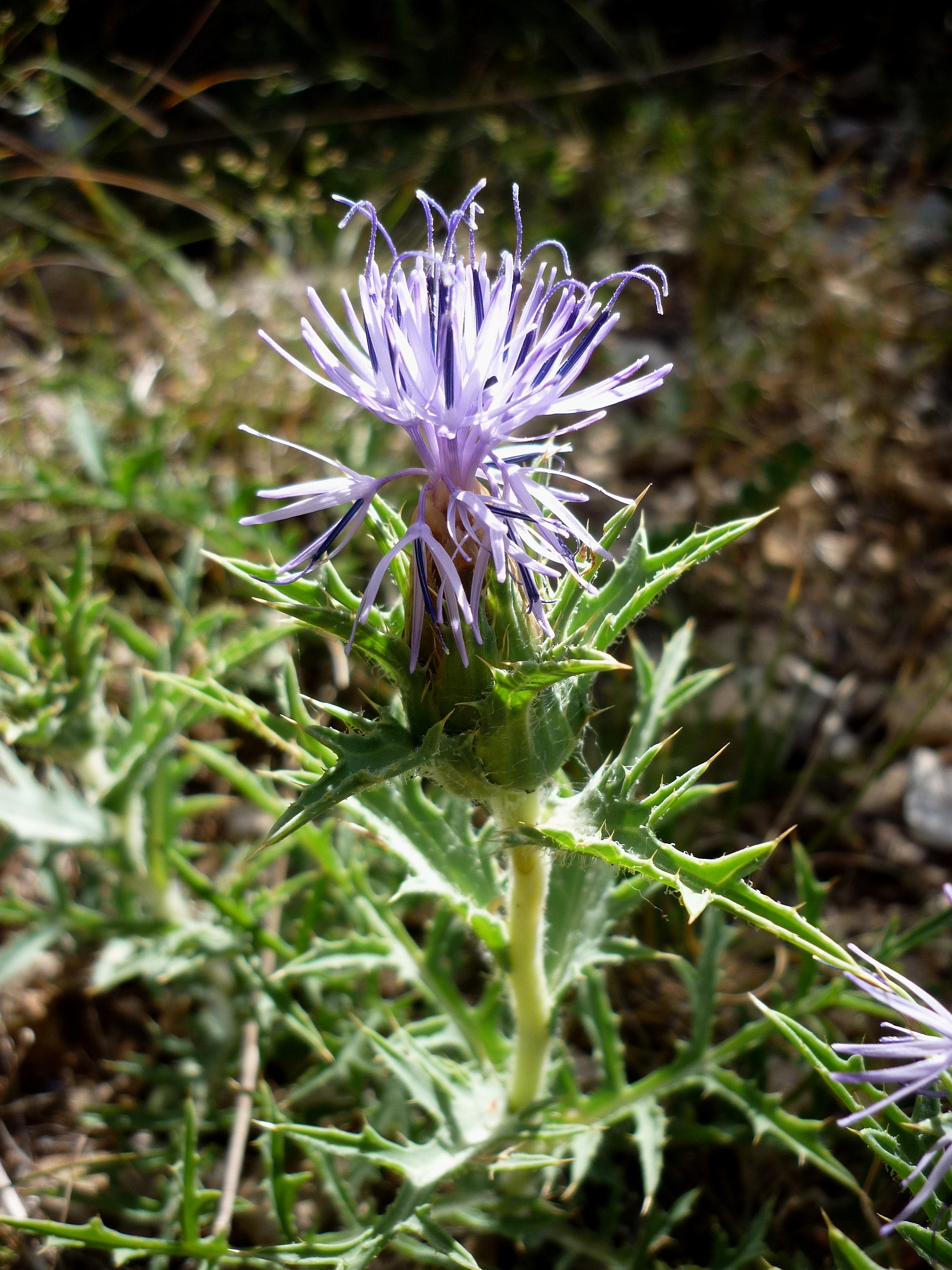 Carduncellus monspelliensium. In la Bòfia, Guixers (Solsonès - Catalunya). To 1.580 m. altitude